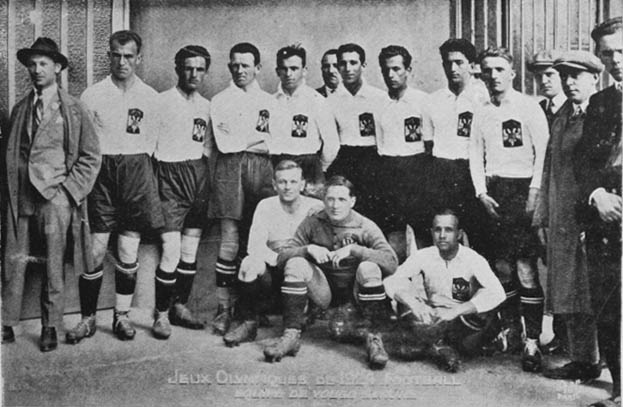 The Yugoslavia national football team that competed at the Summer Olympics held in Paris, France.